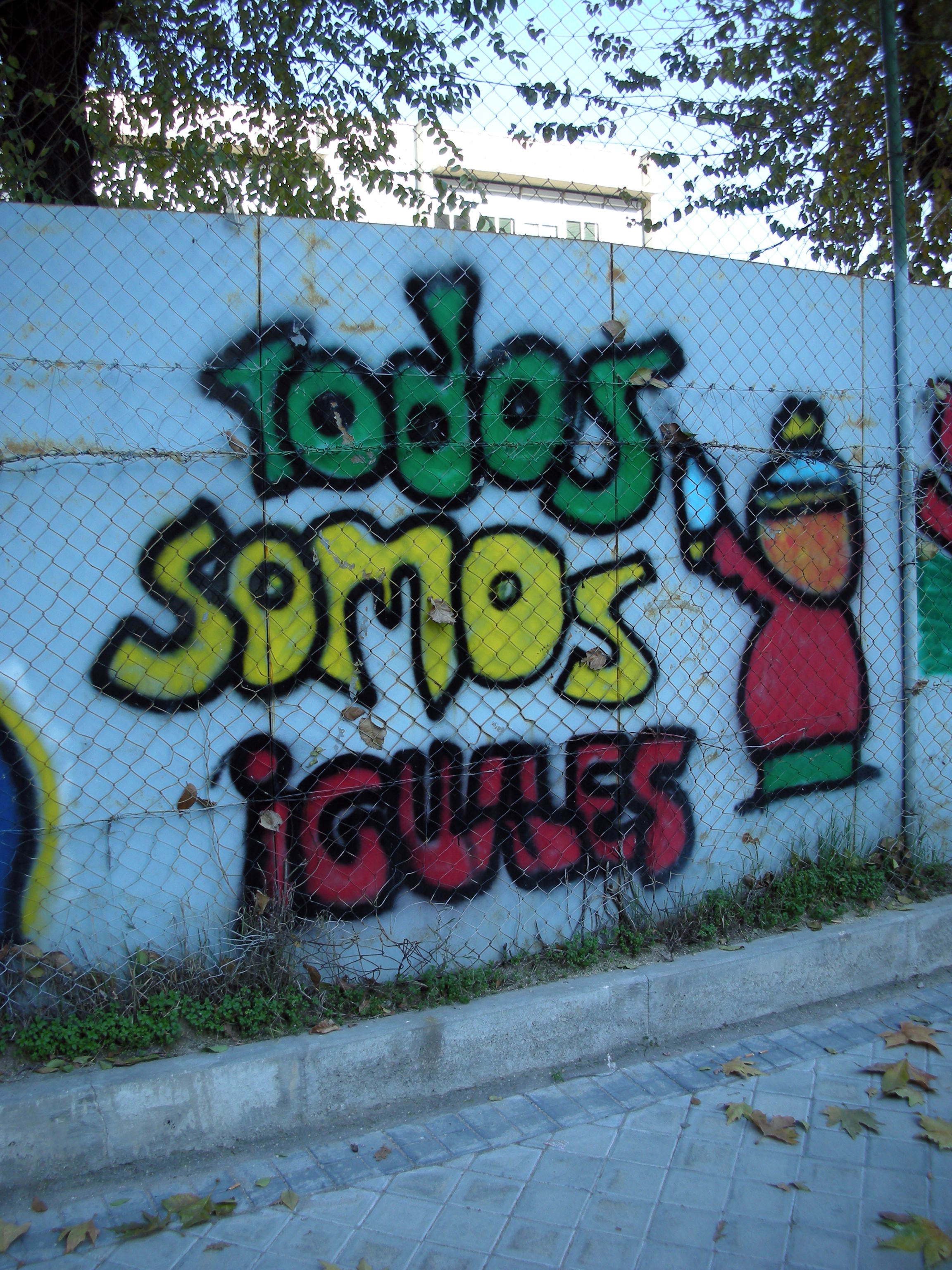 "we are all equal").